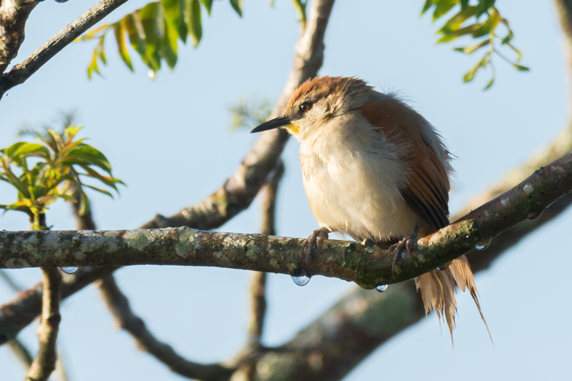 Trinidad 2014, Caribbean